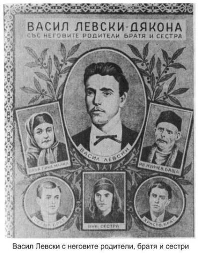 A Poster of the Family of Vasil Levski (1837-1873), early XX century